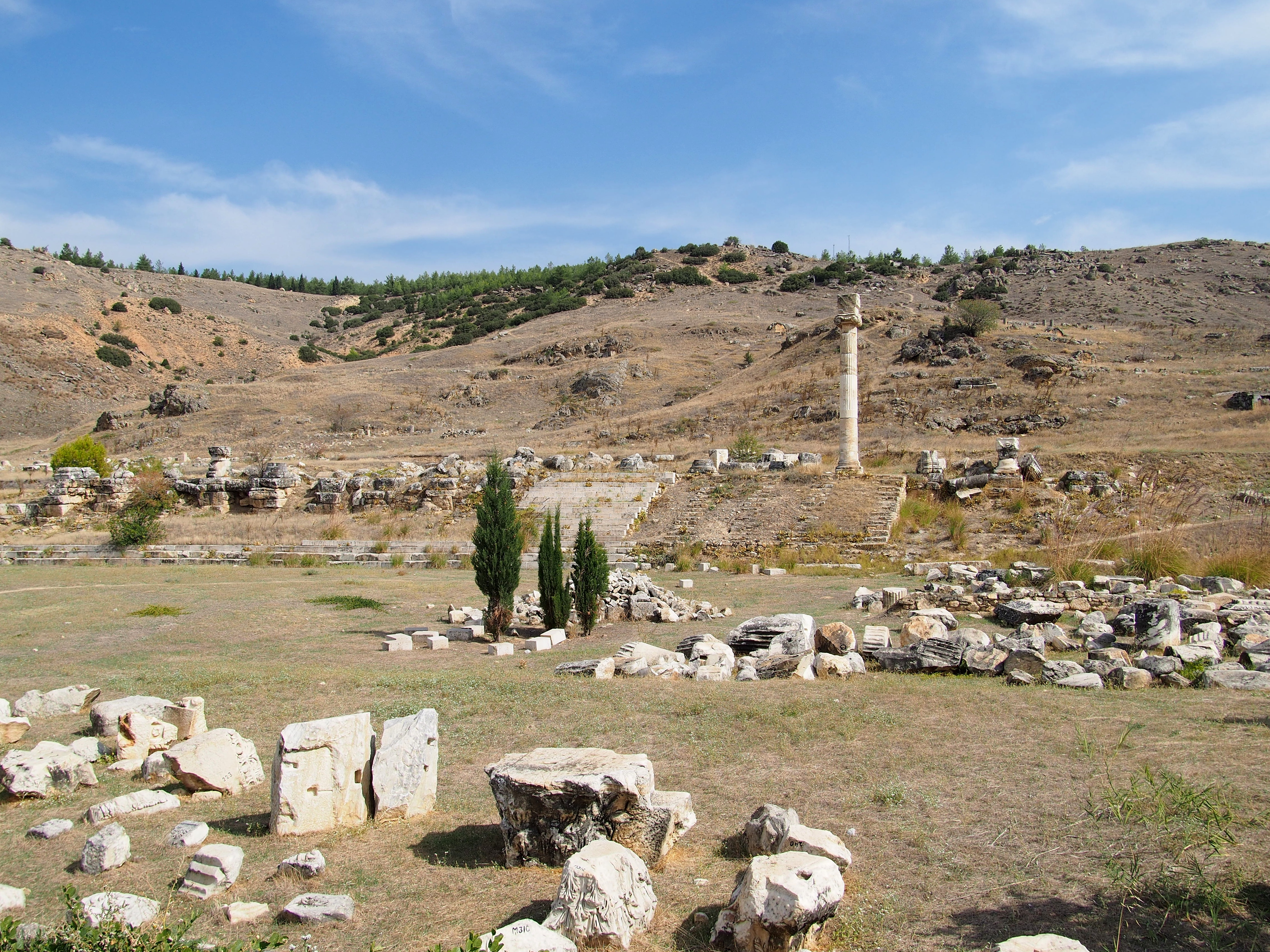 Agora of Hierapolis - 2014.10